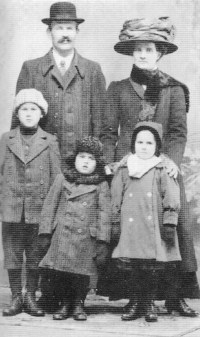 Family of Brännnäs. Upper row Lars Petter and Olga Brännäs (Palo). Lower row Göstä, Tauno and Alli.